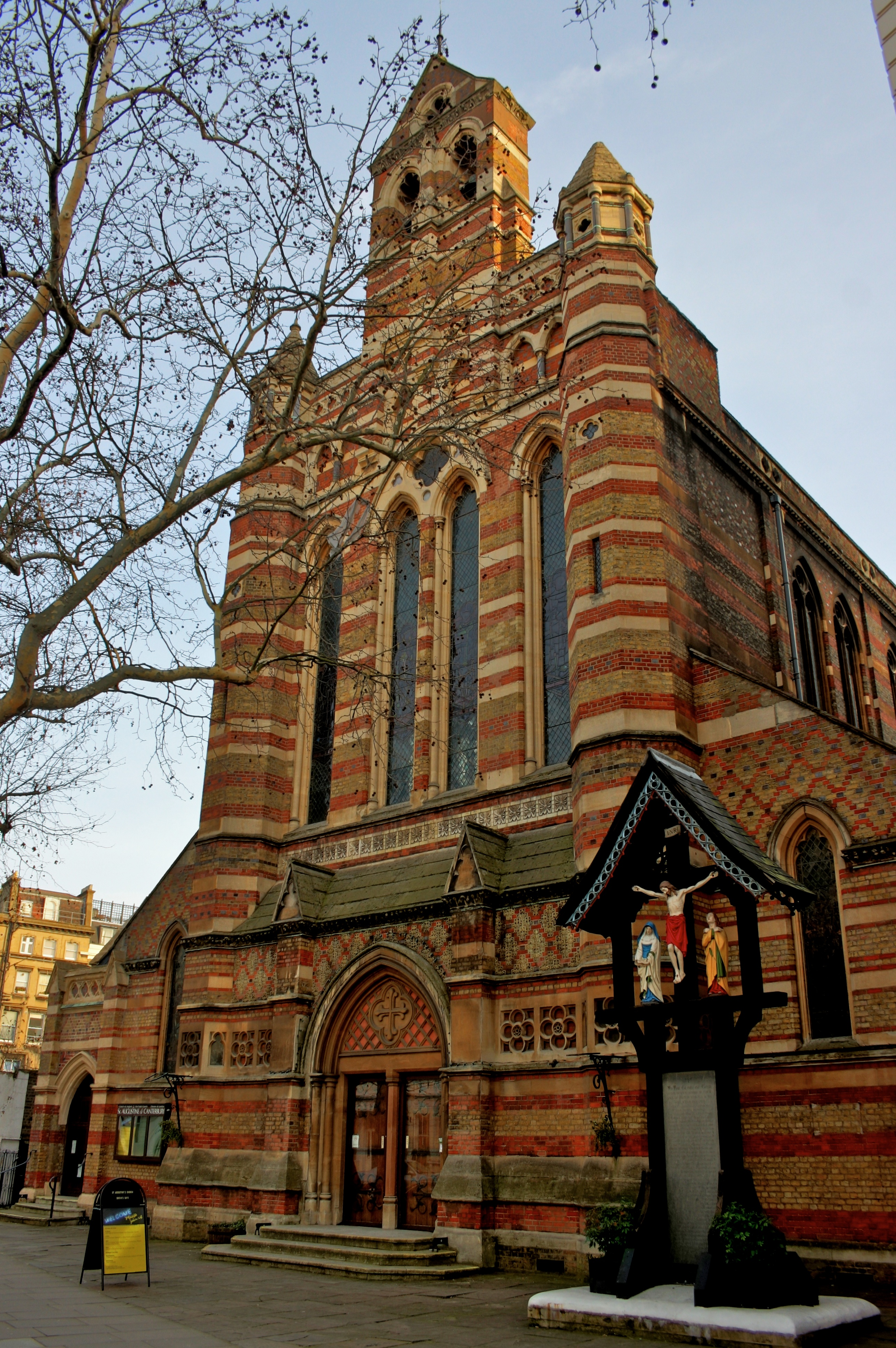 St Augustine of Canterbury parish church, Queen's Gate.